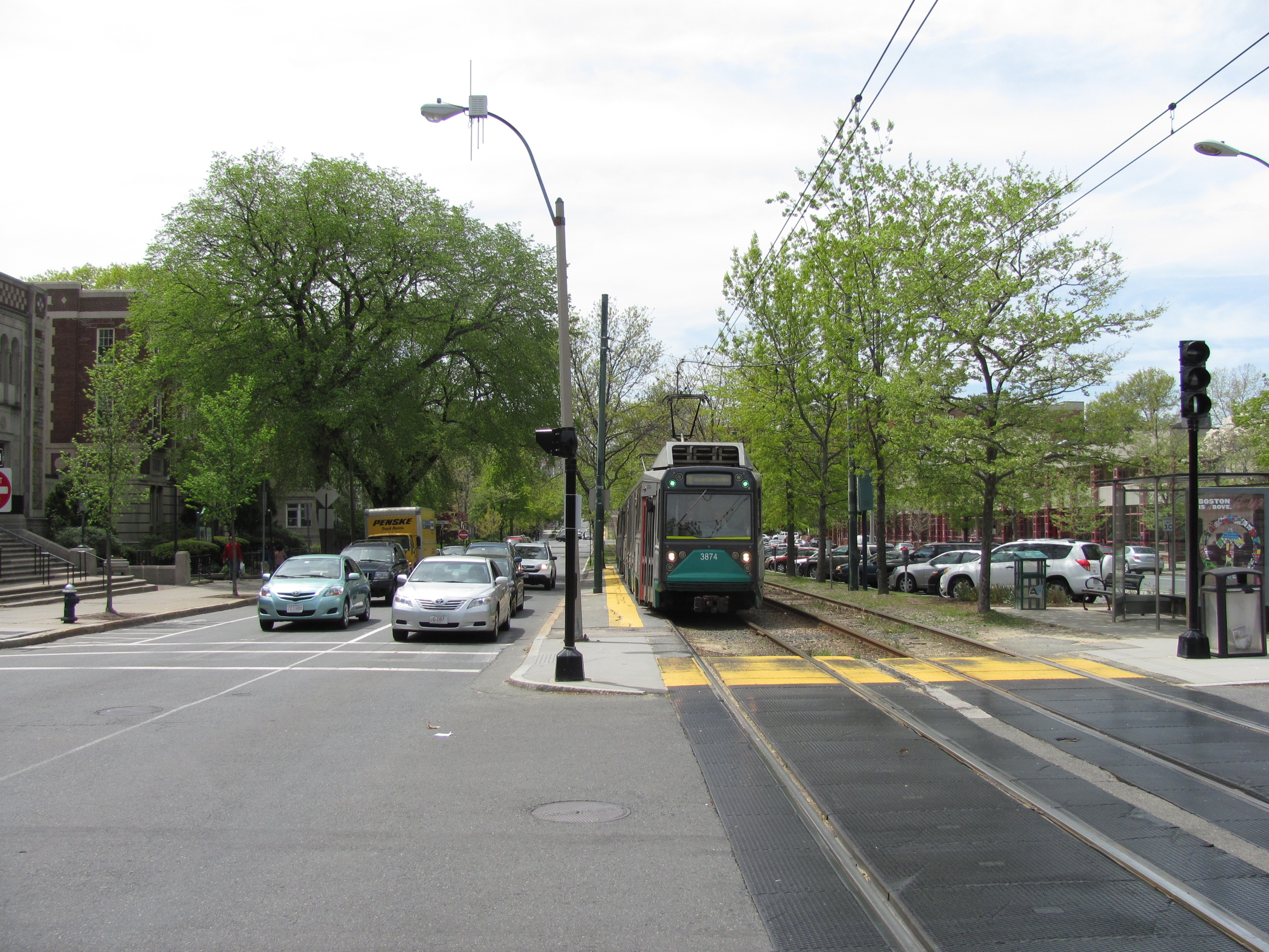 Looking west at Kent Street MBTA station in Brookline Massachusetts